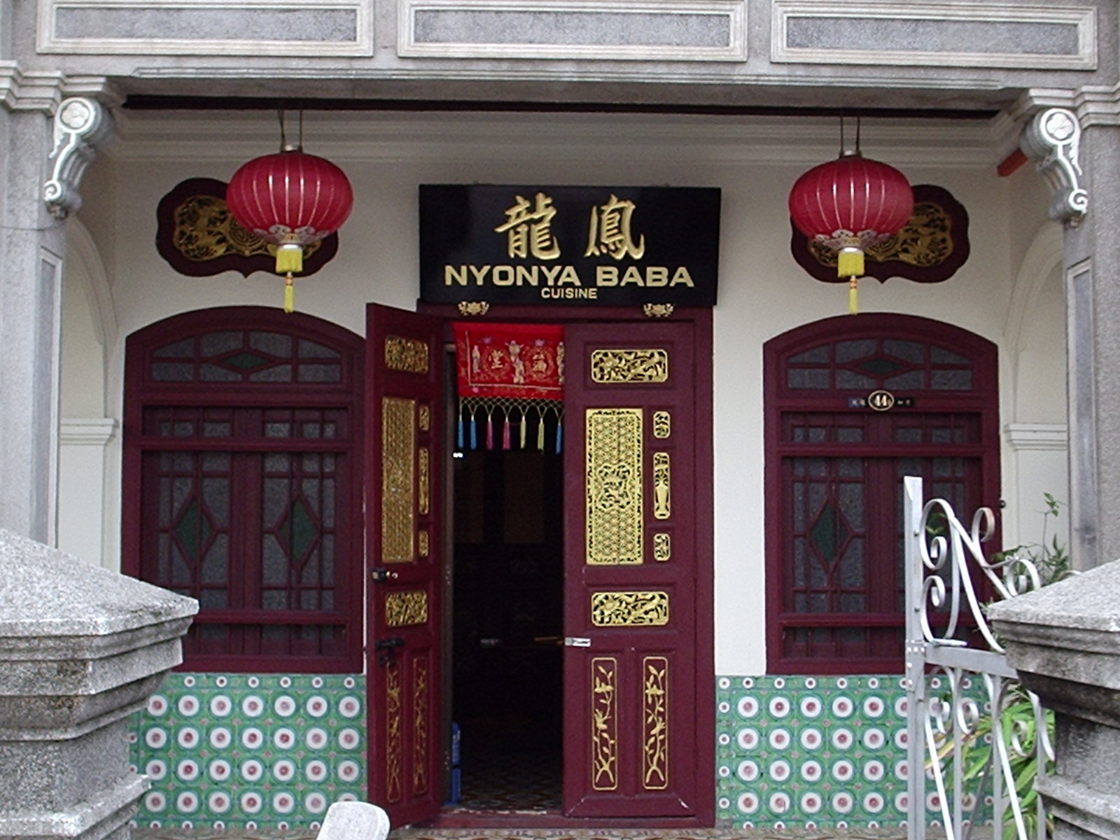 own work